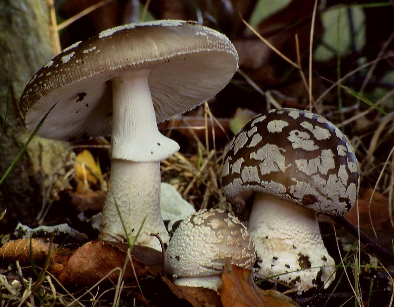 The source of this image is the photographer Frank Gardiner aka Zonda Grattus, who is the sole owner and copyright holder of this photograph and agrees to publish it under the Own Work, Creative Commons Attribution 3.0 License.